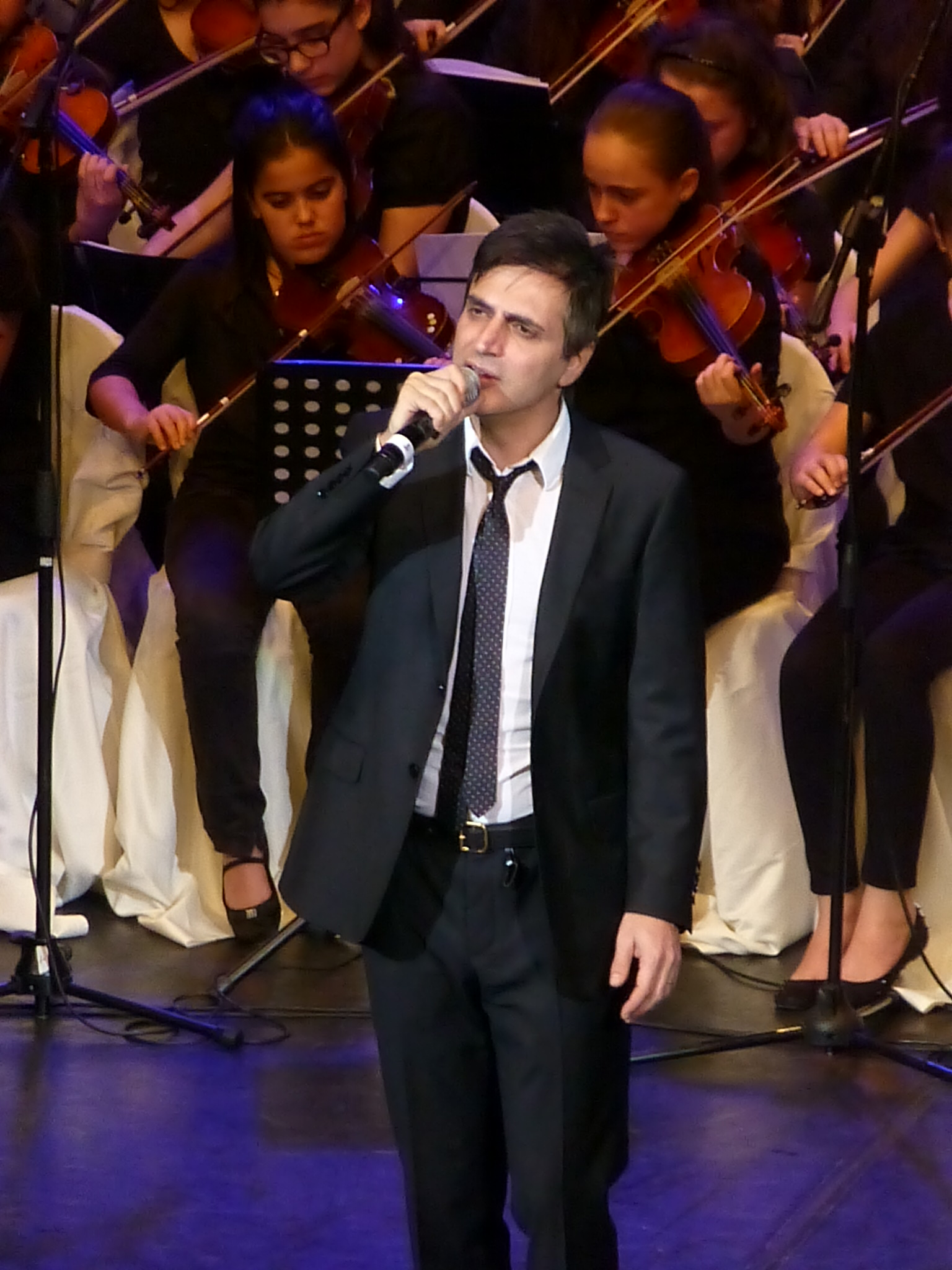 Teoman 2013 / Maslak TIM Istanbul